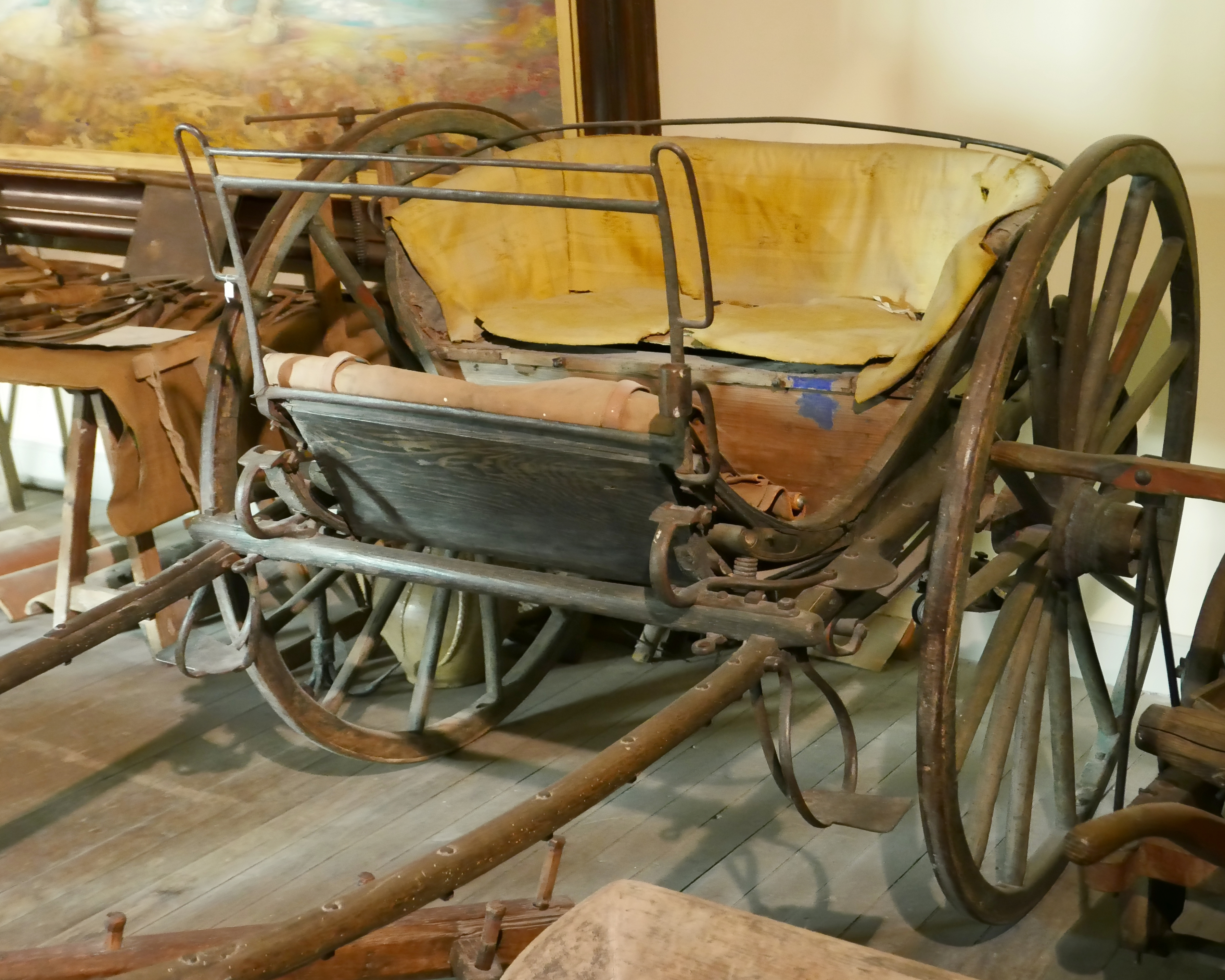 Avignon (Vaucluse, Provence, France), Roure Palace, a boquet, small light horse-drawn carriage, open, with two wheels and two seats, towed by a single horse, invented around 1777 by the Parisian coachbuilder Boquet.